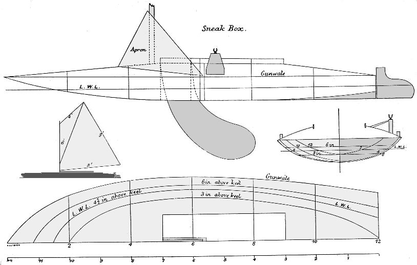 The Sneak Box, a type of East Coast hunting boat.